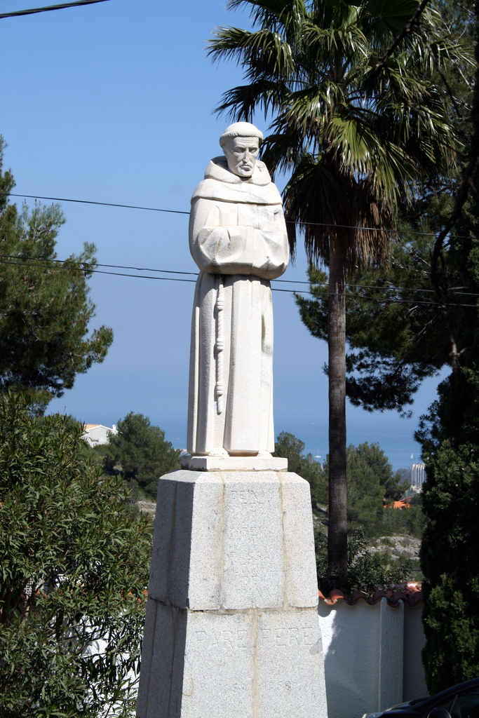 Statue of Fray Pedro Esteve, in front the chapel with the same name, in one of Montgó's side (Denia, Alicante, Spain).